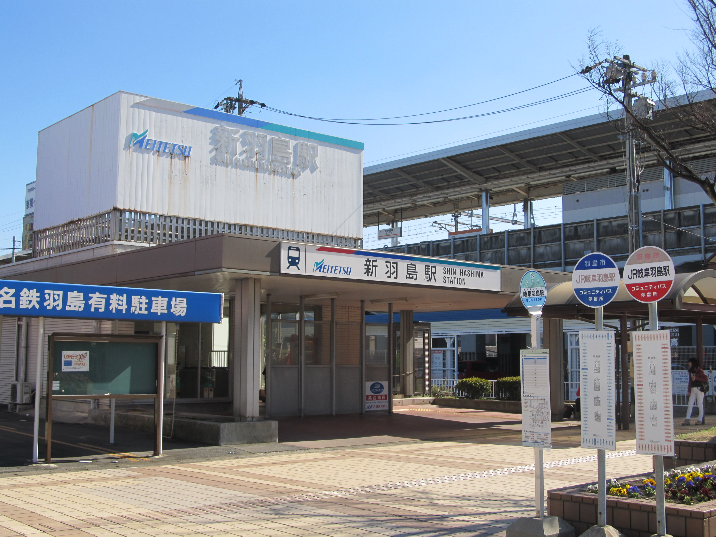 Nagoya Railroad Hashima Line Shin Hashima Station Building.